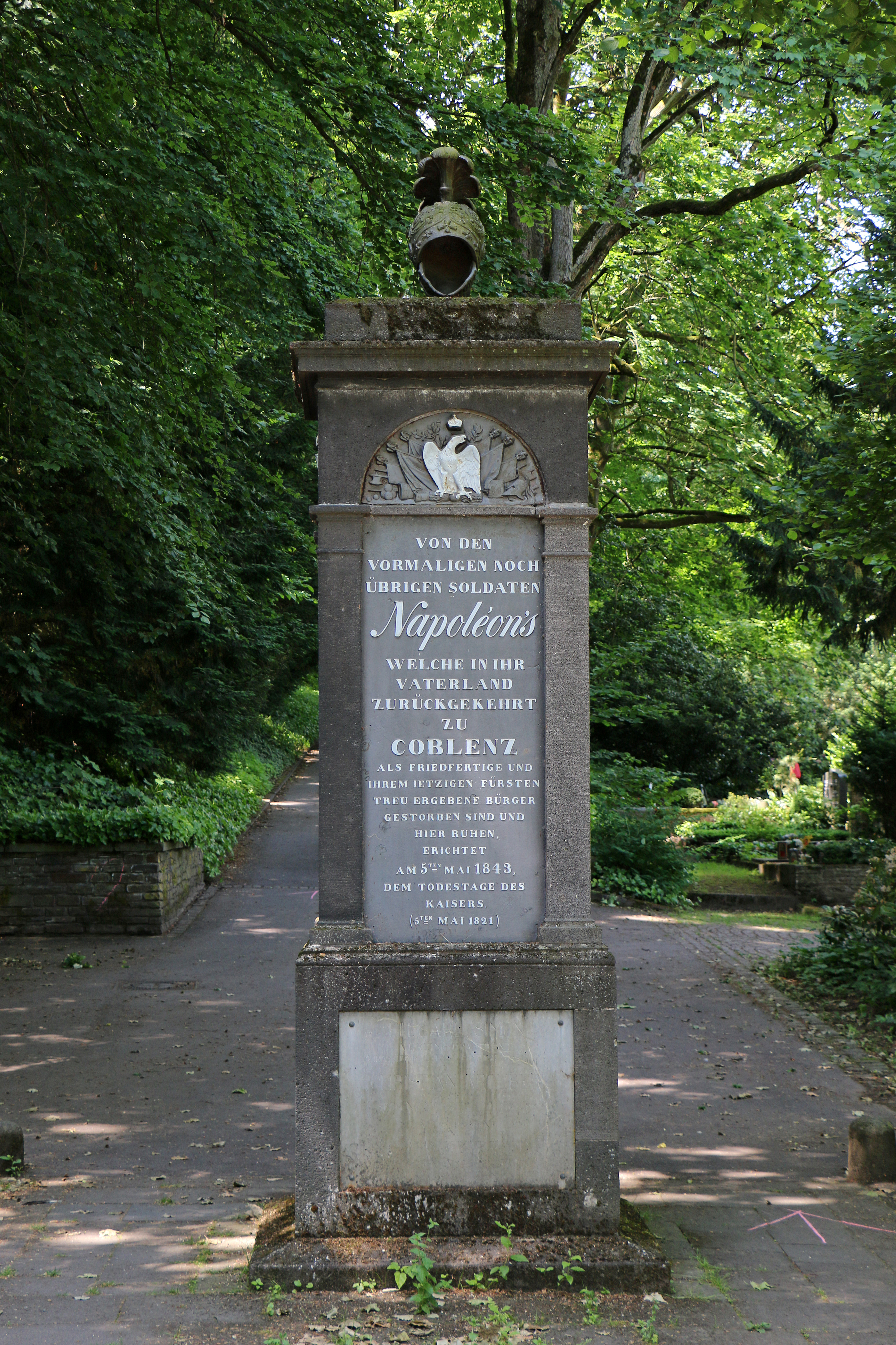 Napoleon stone in Koblenz